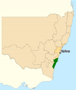 Incorporates or developed using Administrative Boundaries ©PSMA Australia Limited licensed by the Commonwealth of Australia under Creative Commons Attribution 4.0 International licence (CC BY 4.0). Derived from State and Territory Boundaries from the Australian Bureau of Statistics under Creative Commons Attribution 2.5 Australia license (CC BY 2.5 AU)